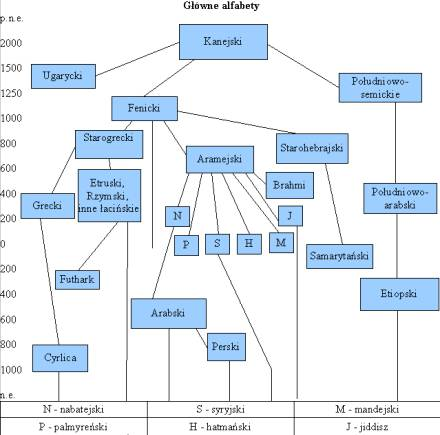 History of alphabets